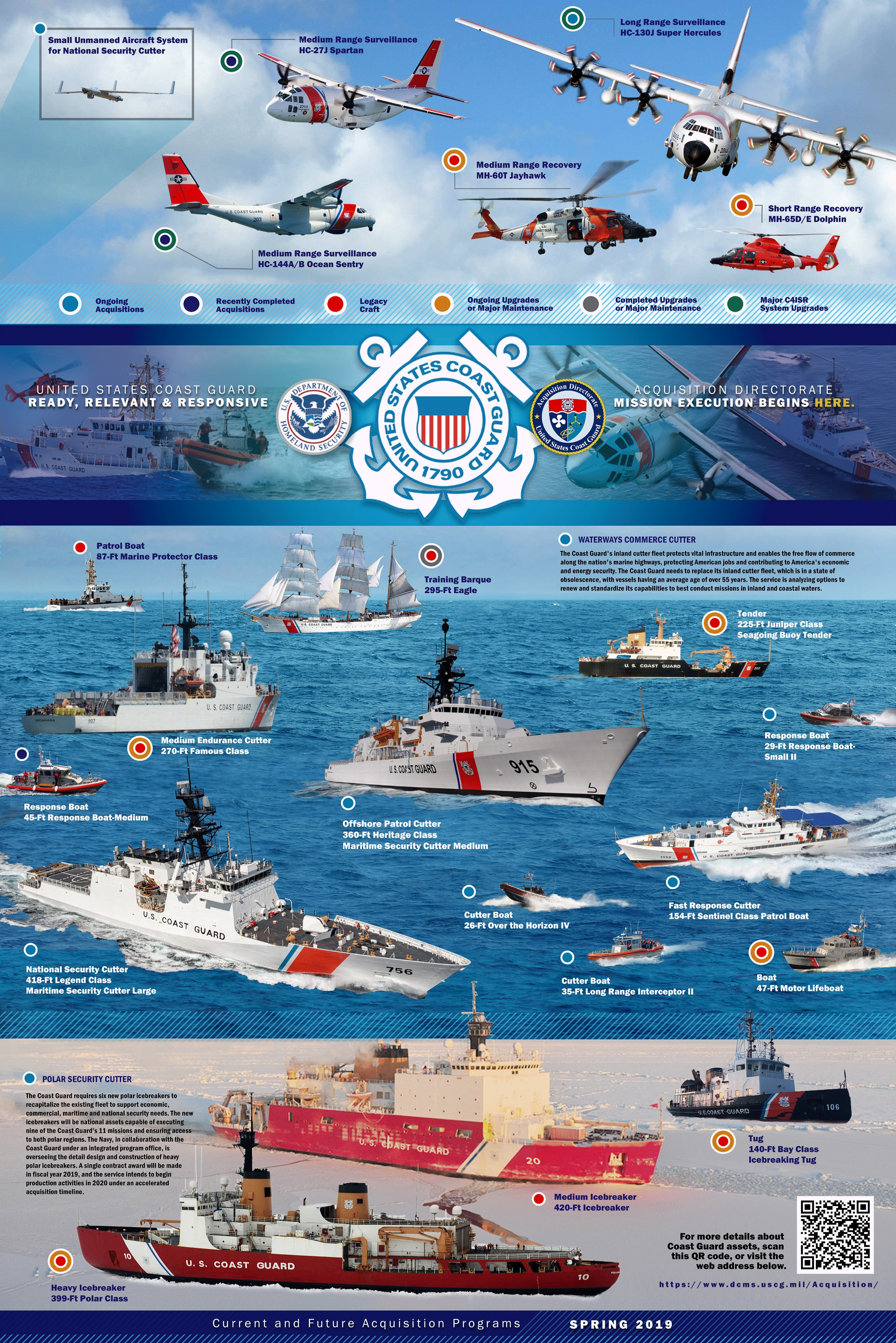 United States Coast Guard current and future acquisition programs